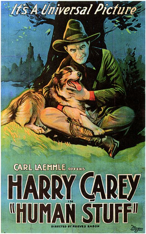 Movie poster for Human Stuff (1920) with Harry Carey.